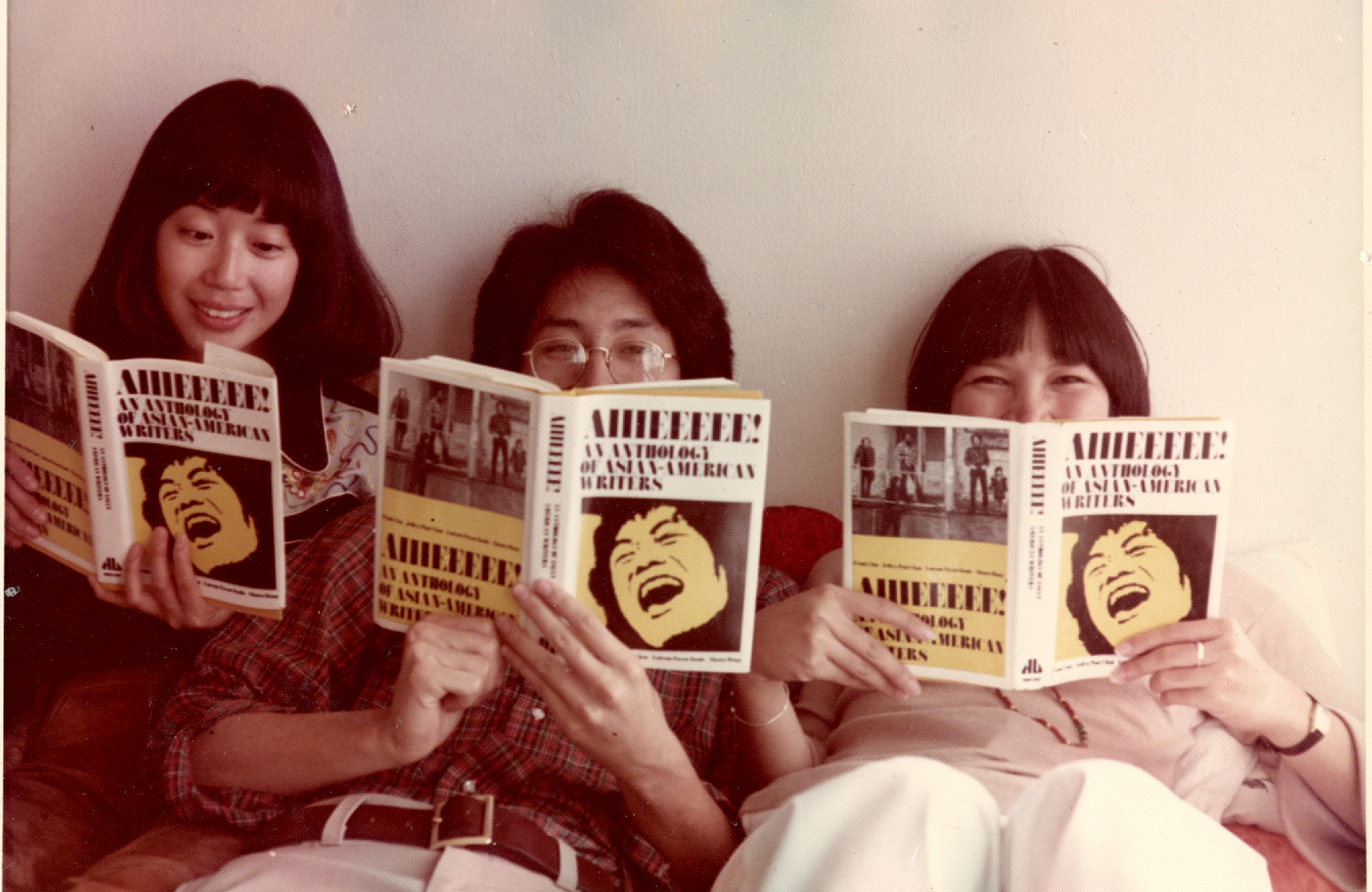 Nancy Wong, Shawn Hsu Wong and cyn. Zarco read 1st edition of Aiiieeeee!, An Anthology of Asian American Writers. Photo by Nancy Wong, 1976.